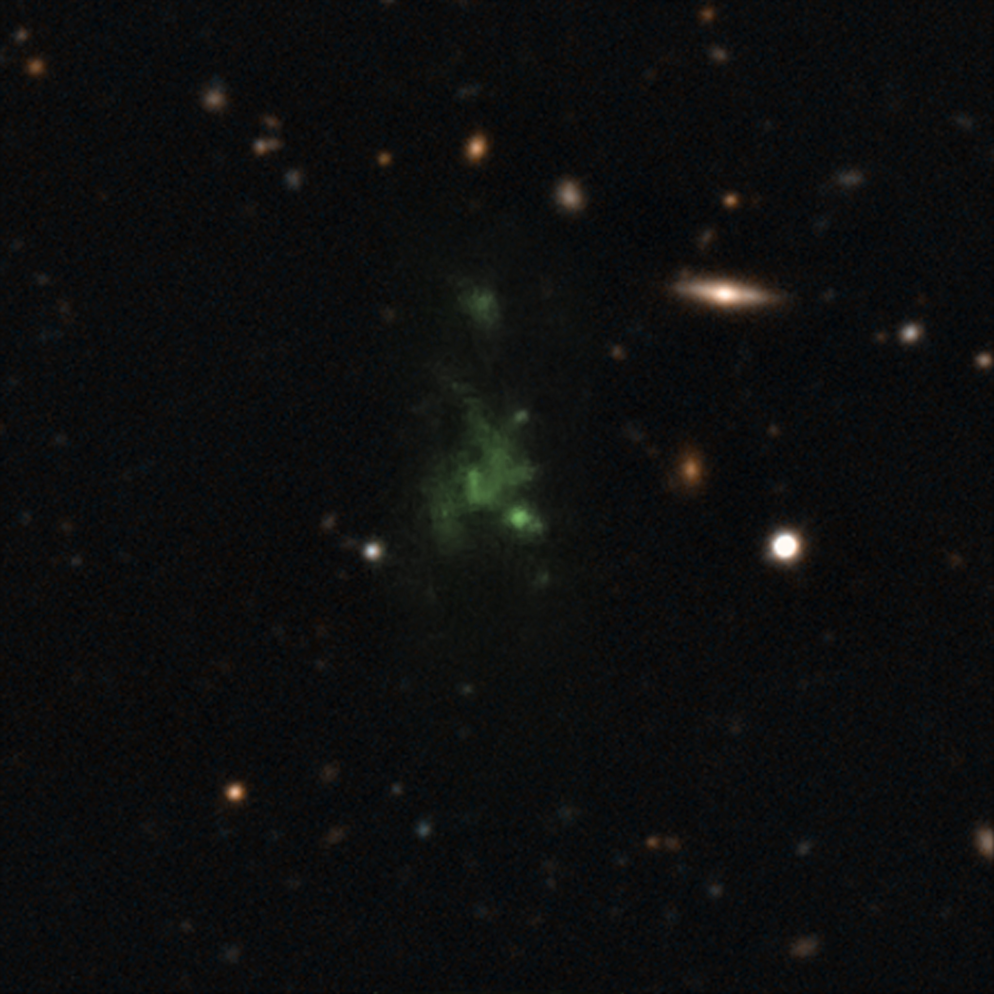 This image shows one of the largest known single objects in the Universe, the Lyman-alpha blob LAB-1. This picture is a composite of two different images taken with the FORS instrument on the Very Large Telescope (VLT) — a wider image showing the surrounding galaxies and a much deeper observation of the blob itself at the centre made to detect its polarisation. The intense Lyman-alpha ultraviolet radiation from the blob appears green after it has been stretched by the expansion of the Universe during its long journey to Earth. These new observations show for the first time that the light from this object is polarised. This means that the giant "blob" must be powered by galaxies embedded within the cloud.